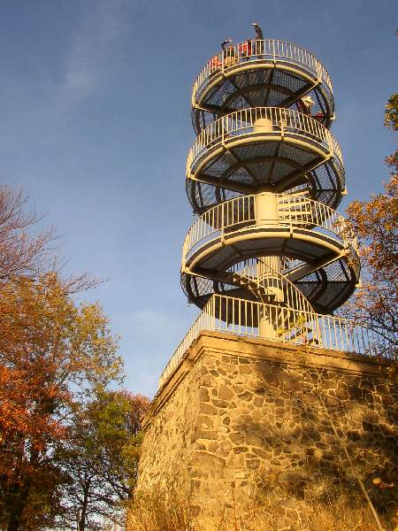 Lookout tower at Varhošť hill in České středohoří, Czech Republic